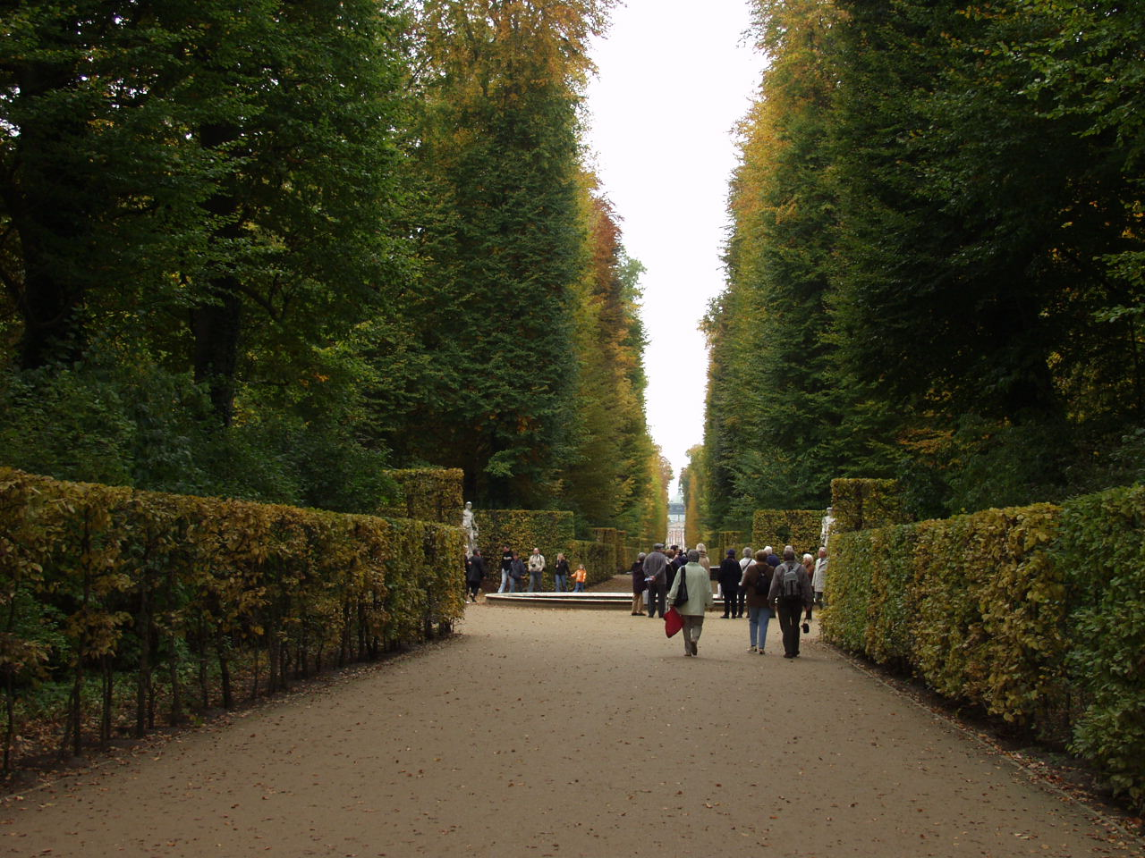 Sanssouci Gardens in Poczdam